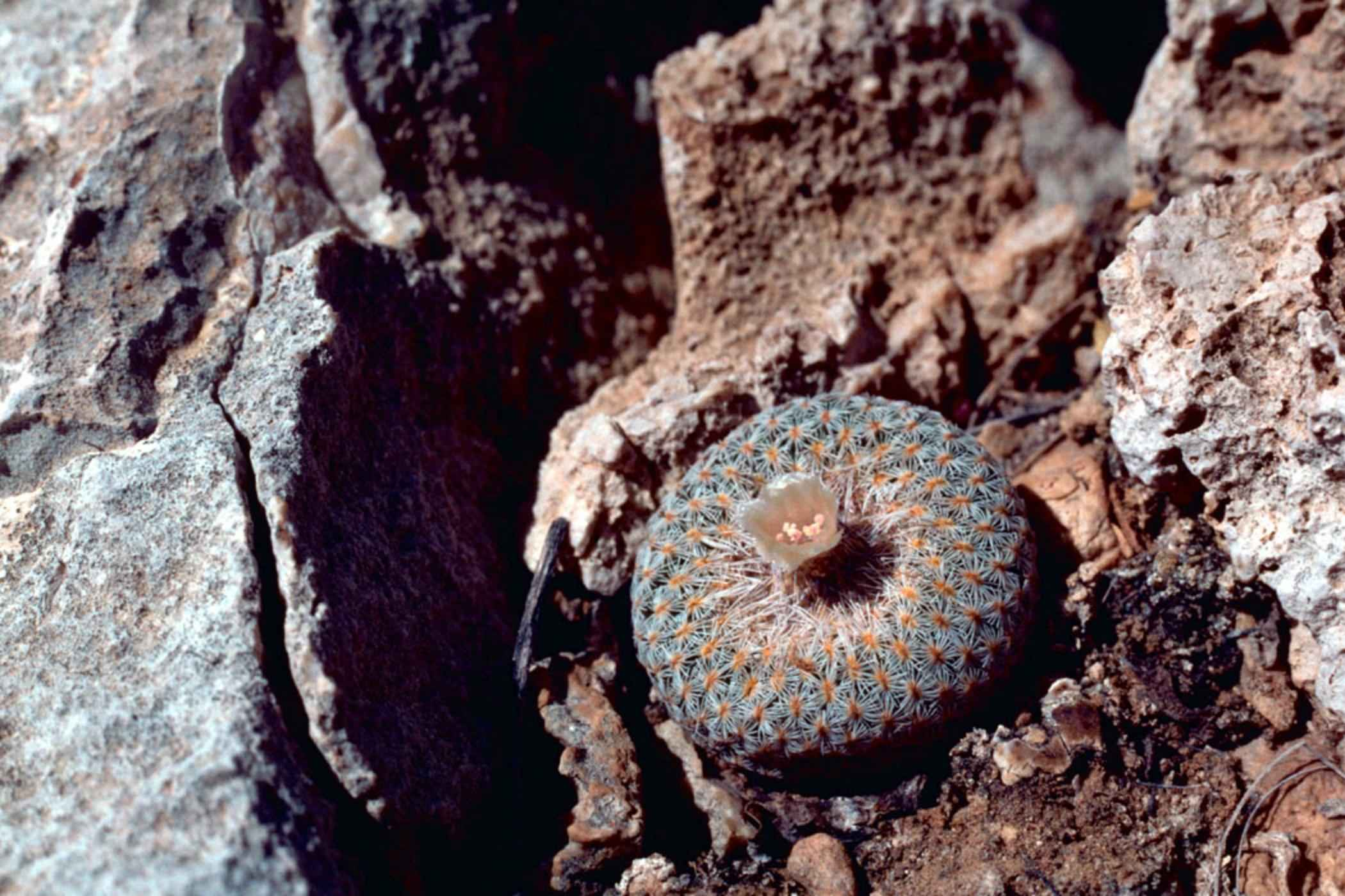 Image title: Flowering button cactus epithelantha micromeris pingpong ball cactus Image from Public domain images website